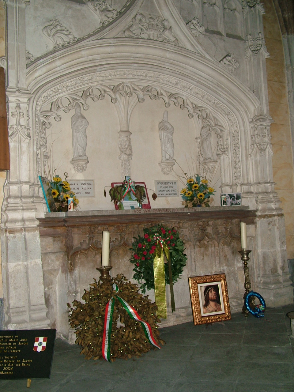 Grave monument of King Umberto II of Italy in the Royal abbey of Hautecombe on bord of the lake Le Bourget (Savoy, France).